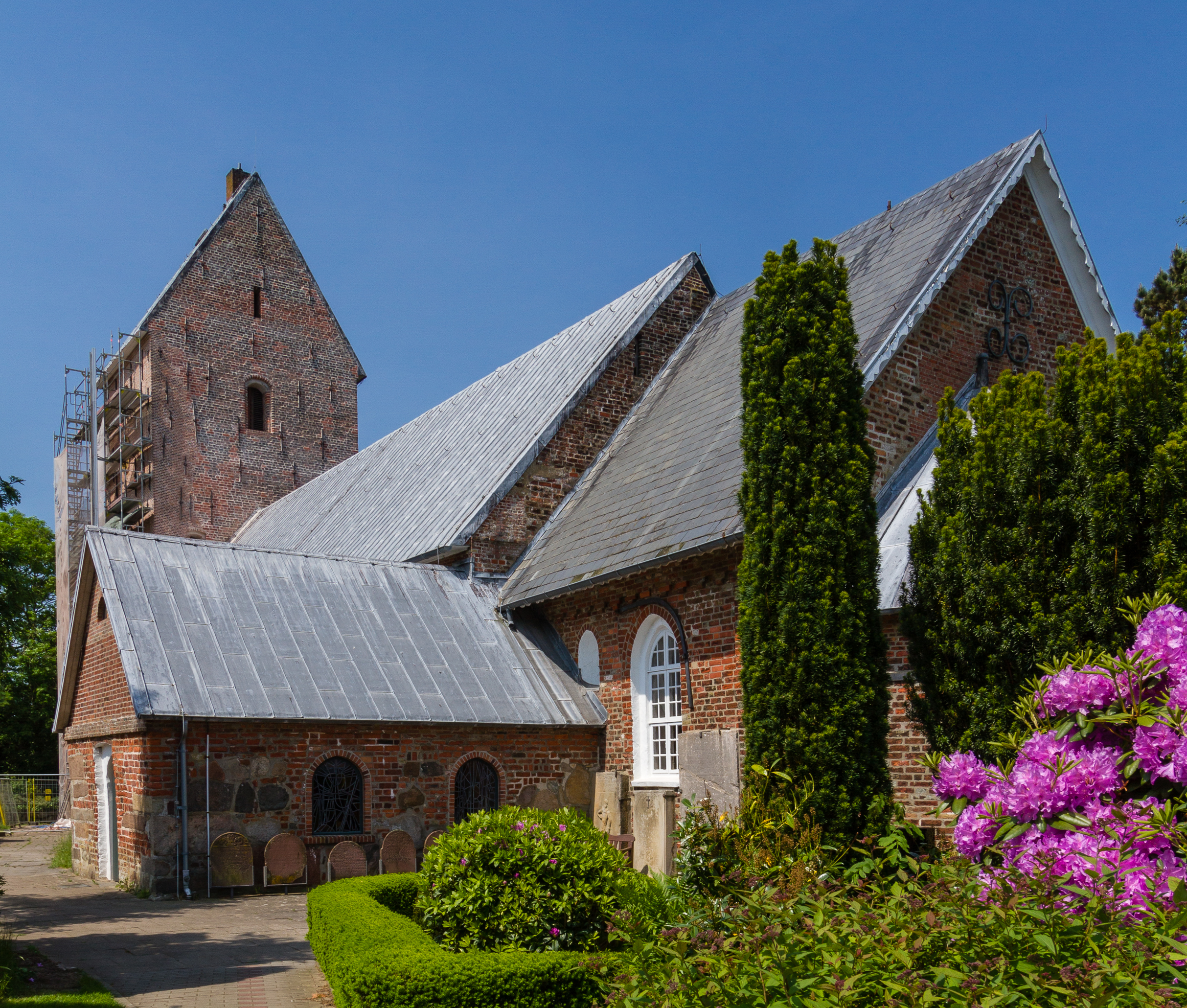 Designation: Church St. Nicolai with equipment Location: Kirchweg Place: Wyk-Boldixum, Collective municipality Föhr-Amrum, District Nordfriesland, Schleswig-Holstein, Federal Republic of Germany Construction time: 13th century Description: Romanesque church building with gothic and baroque extensions Object identification: 1510